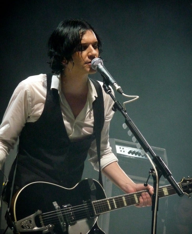 Brian Molko in concert at the O2 Arena - London UK - December 2009